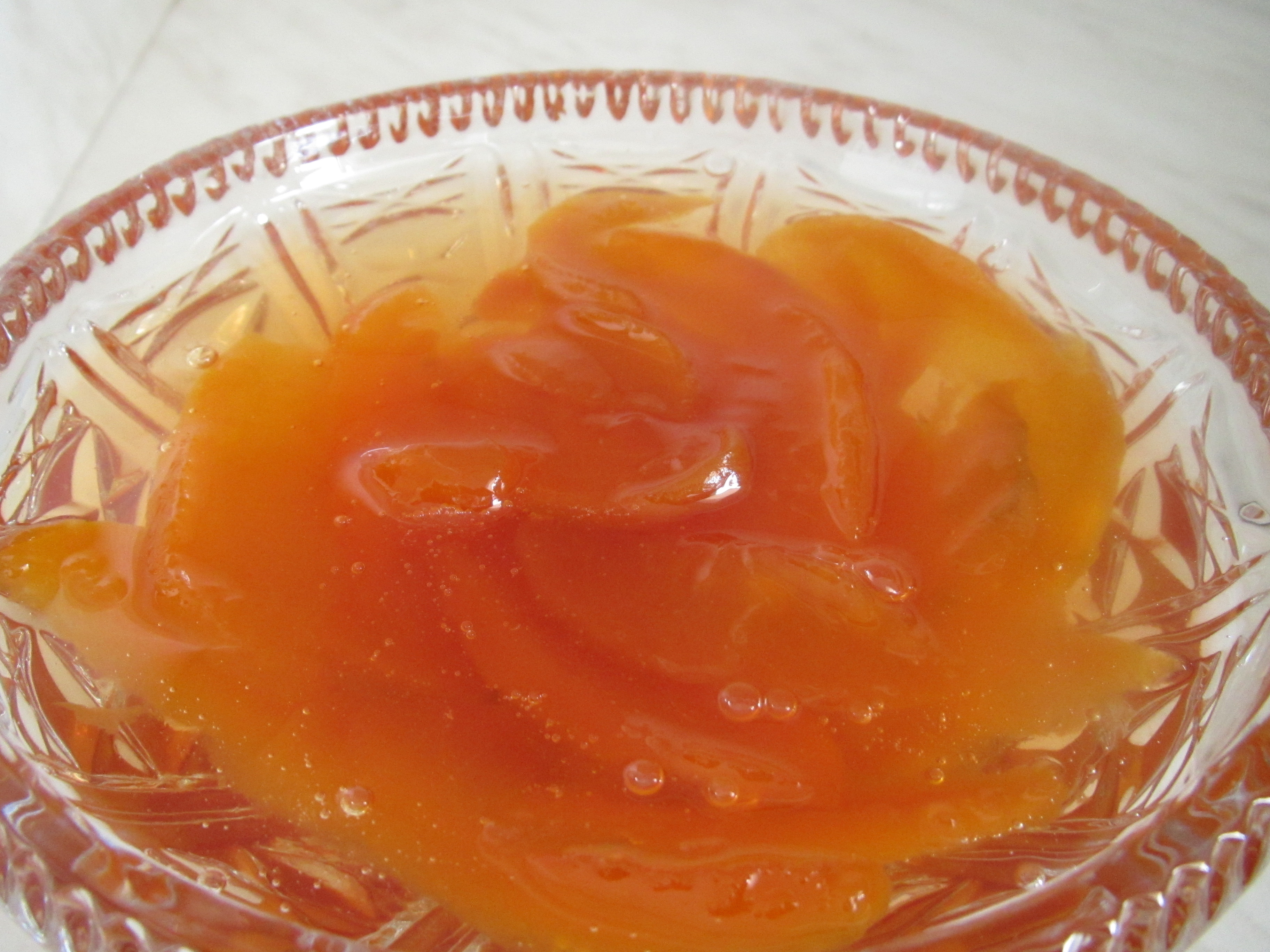 peach jam